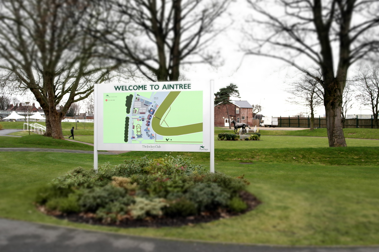 Welcome sign at Aintree. Grand National